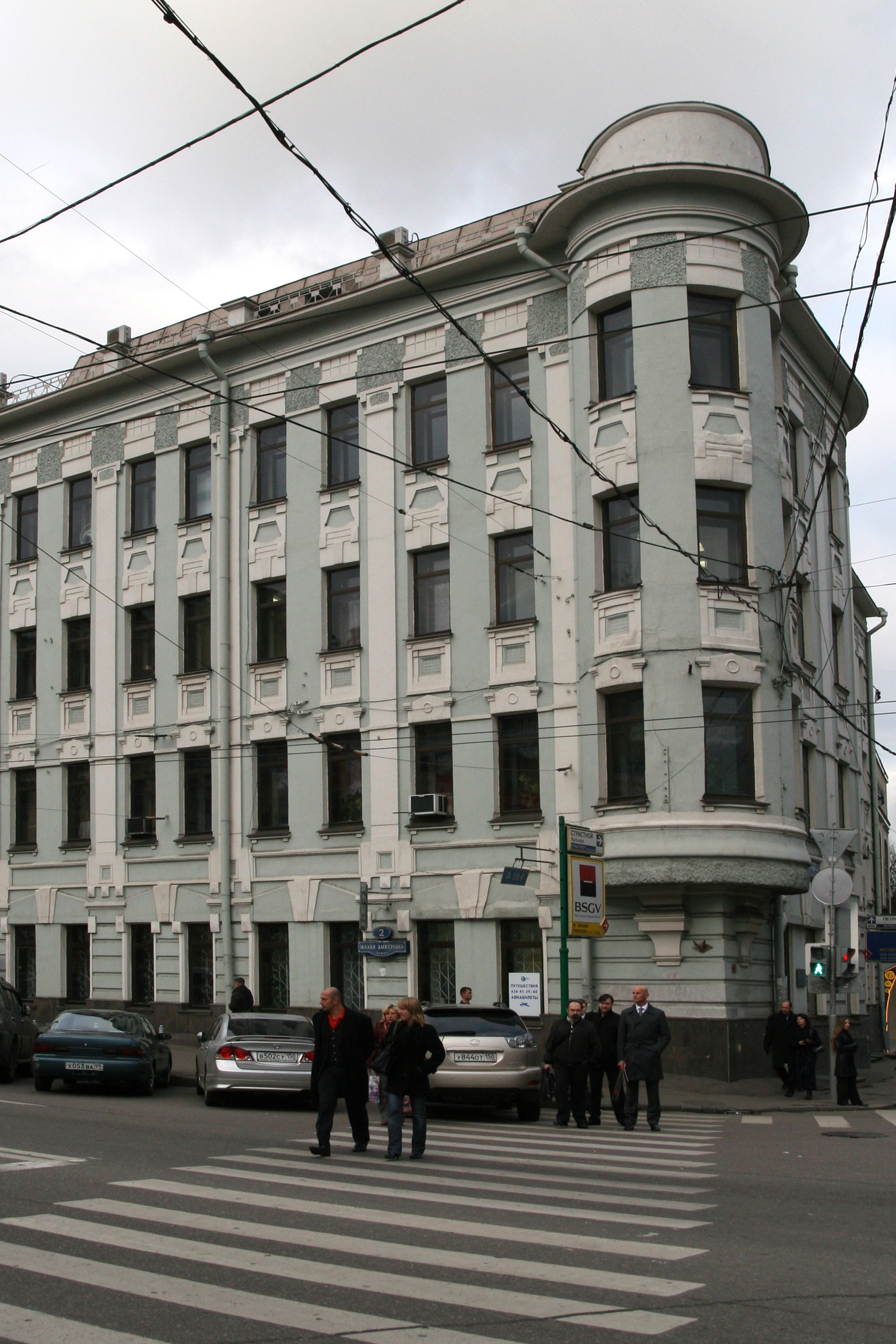 Moscow, Malaya Dmitrovka Street, 2